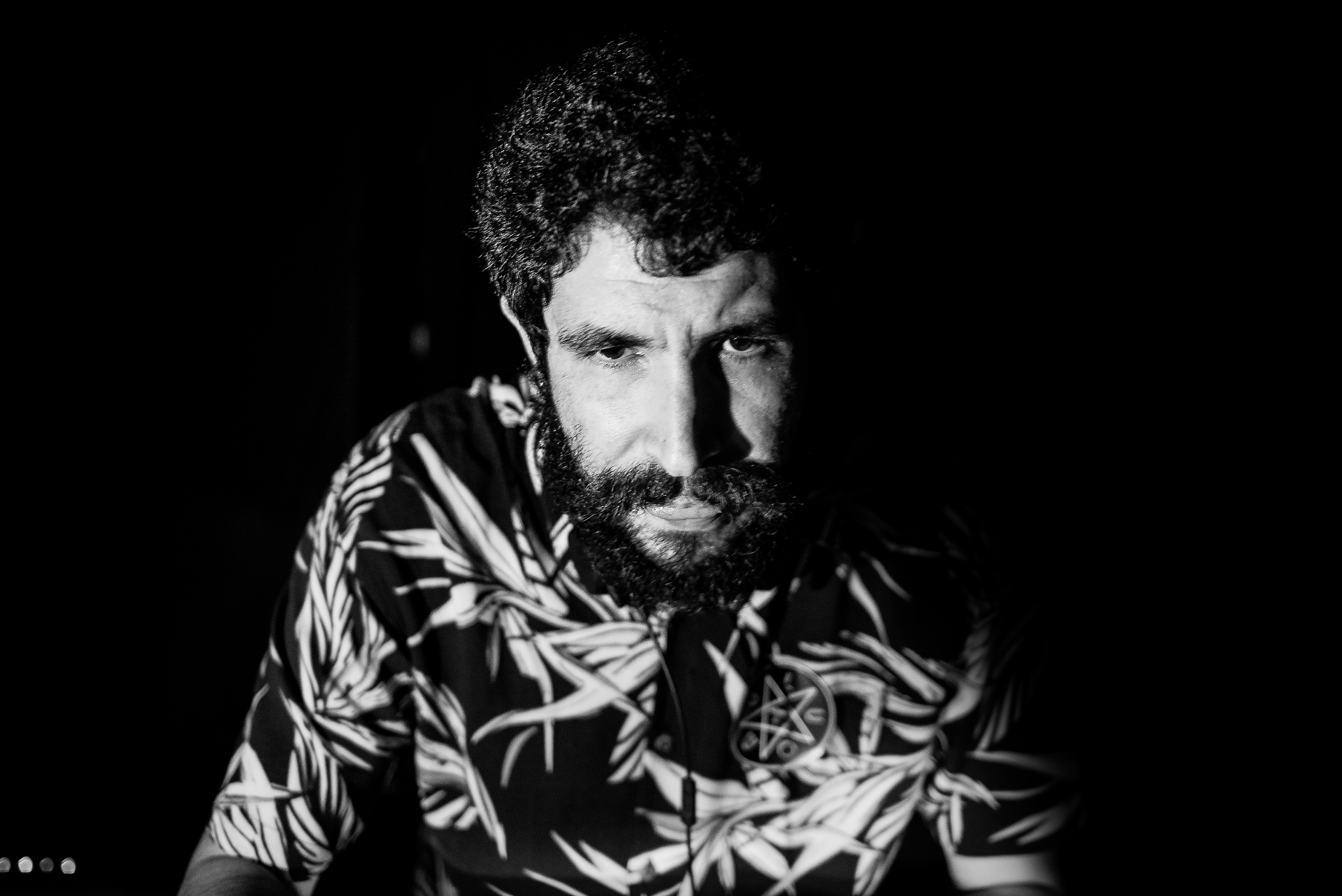 omulu